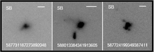 Picure of three Pea galaxies